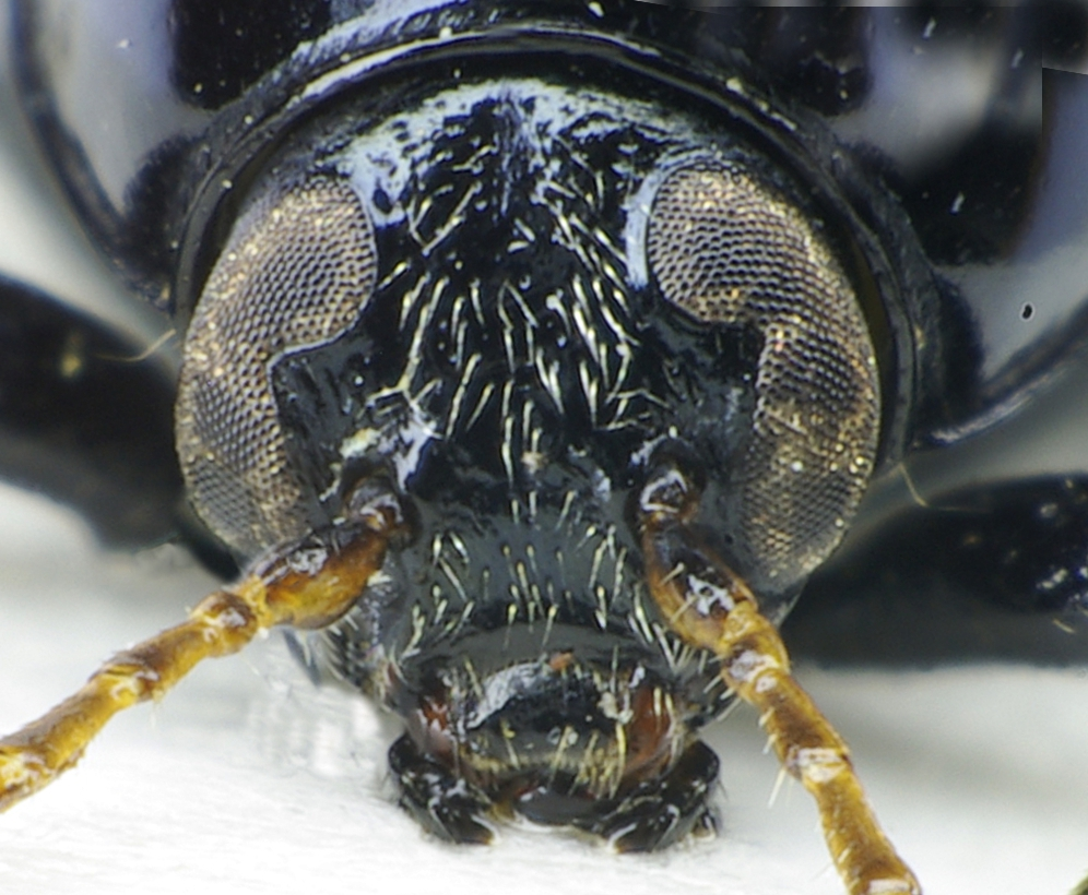 Cryptocephalus bipunctatus head